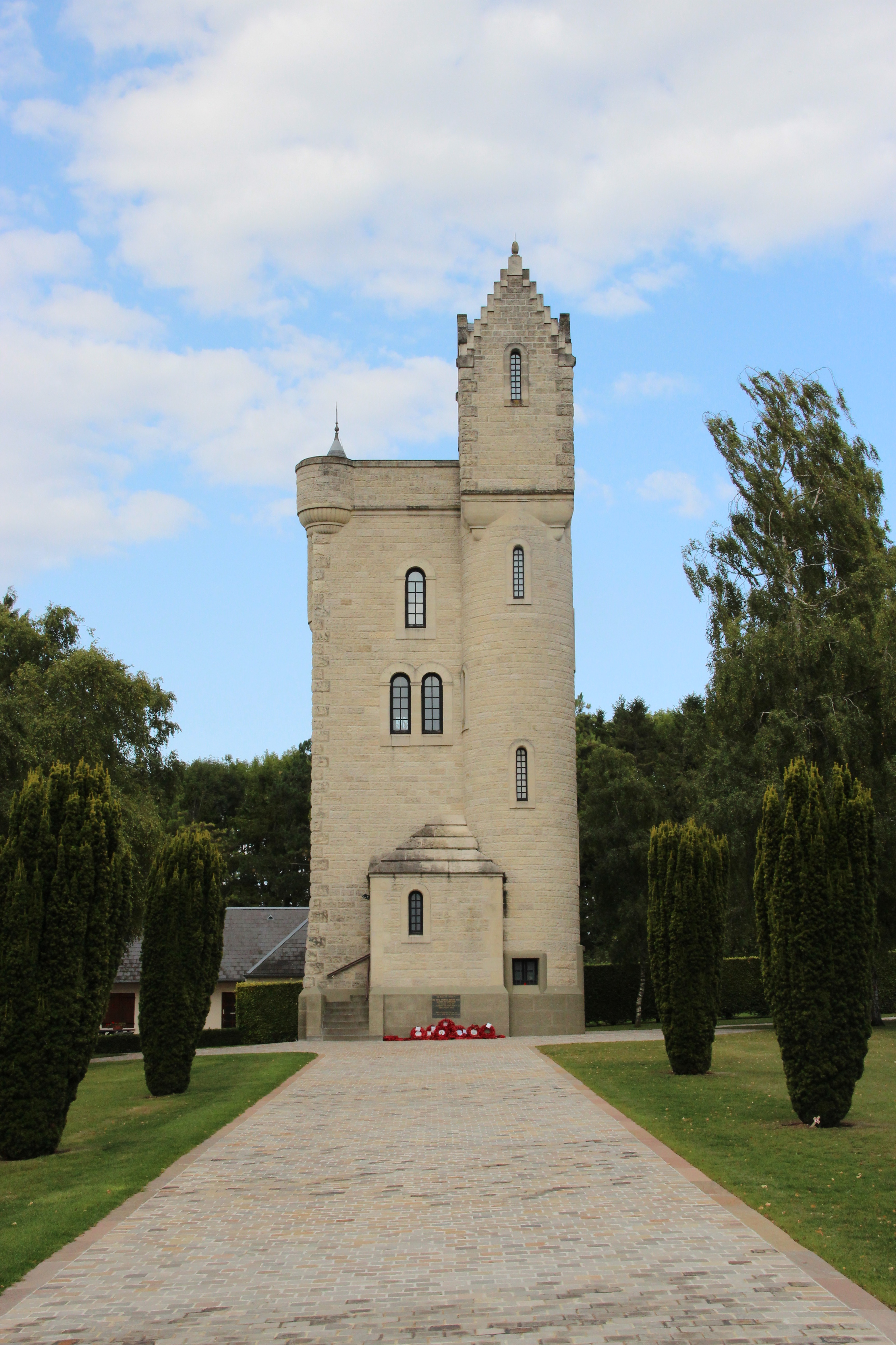 Ulster Tower .